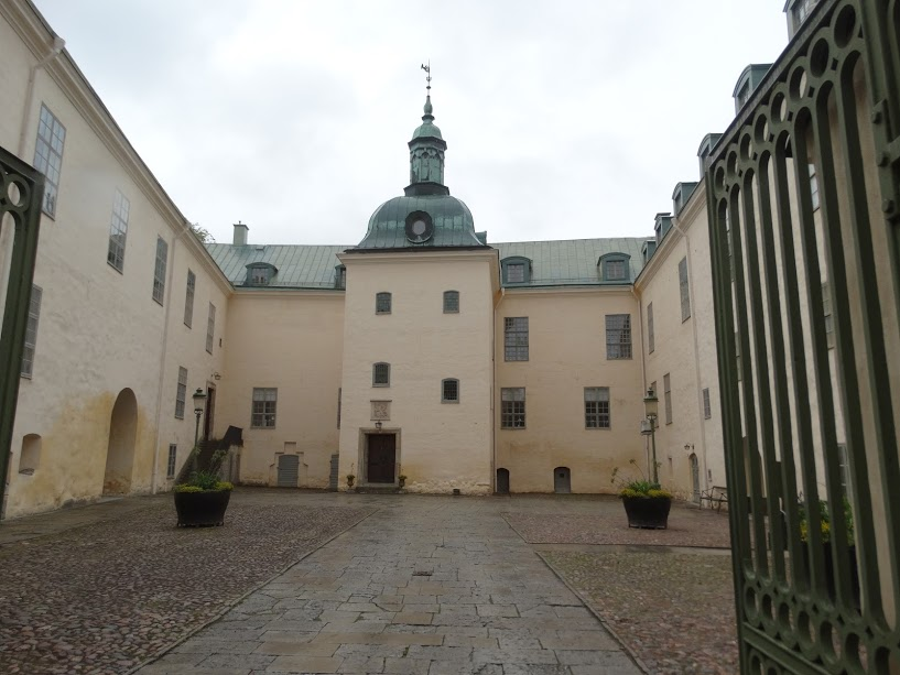 Linkoping (the castle)